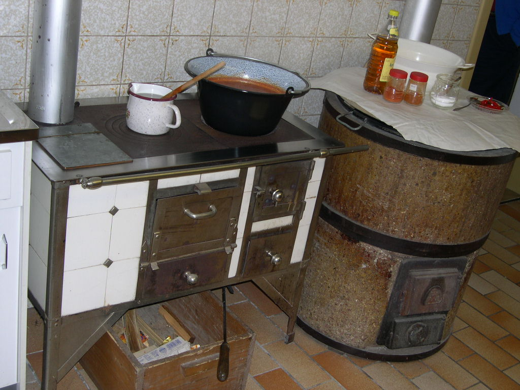 Pot of Hungarian Fisherman's Soup (Halászlé, or Karpfensuppe) simmering over wood stove